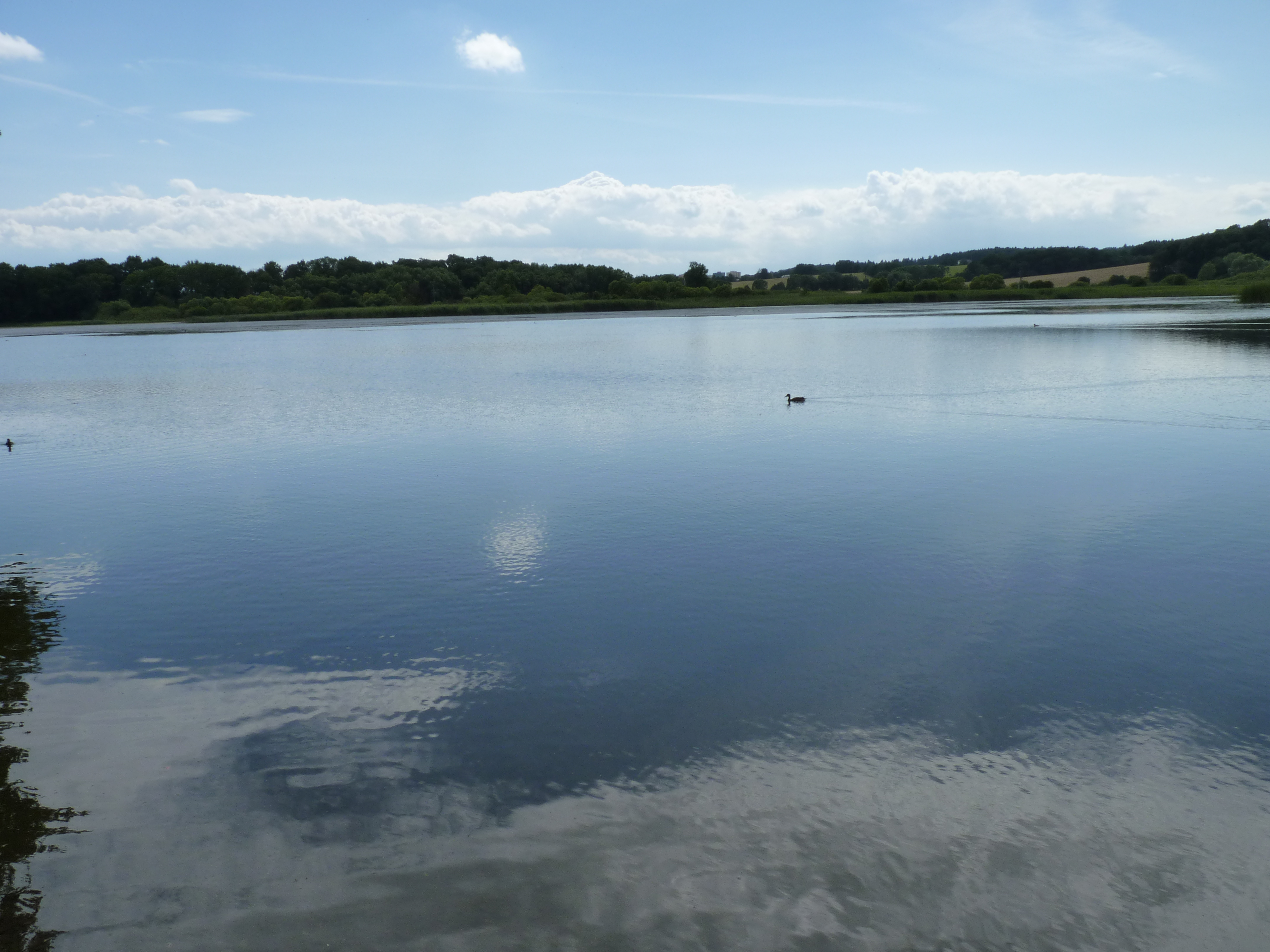 Nature reserve Štěpán. Ostrava-city District, Moravian-Silesian Region, Czech Republic